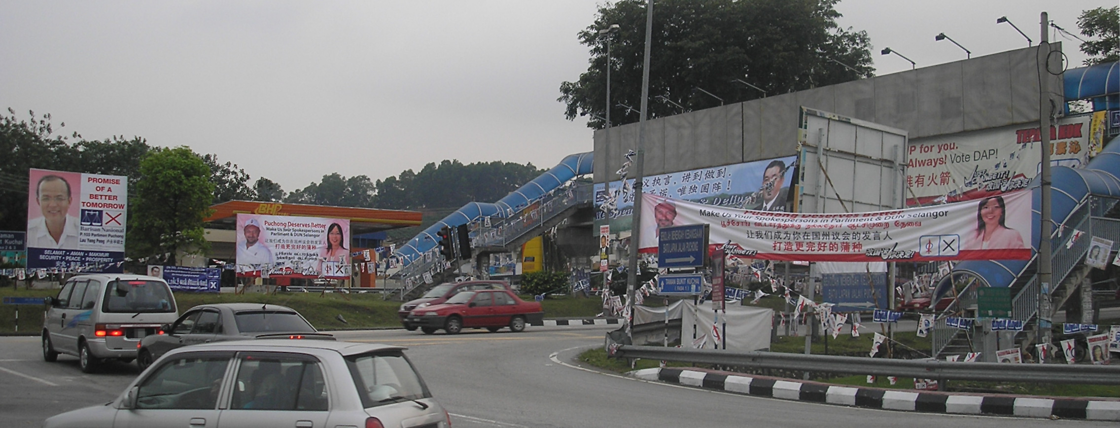 Campaign banners of the 2008 Malaysian general election at Taman Kinrara (Kinrara Gardens) (N30 Kinrara), in Selangor, Malaysia. The banners depict incumbent Kaw Cheong Wei representing Barisan Nasional (white balance with blue background) and Teresa Kok Suh Sim (previously holding the parliamentary seat of P122 Seputeh in Kuala Lumpur) representing the Democratic People's Party (red rocket affront blue circle and white background).